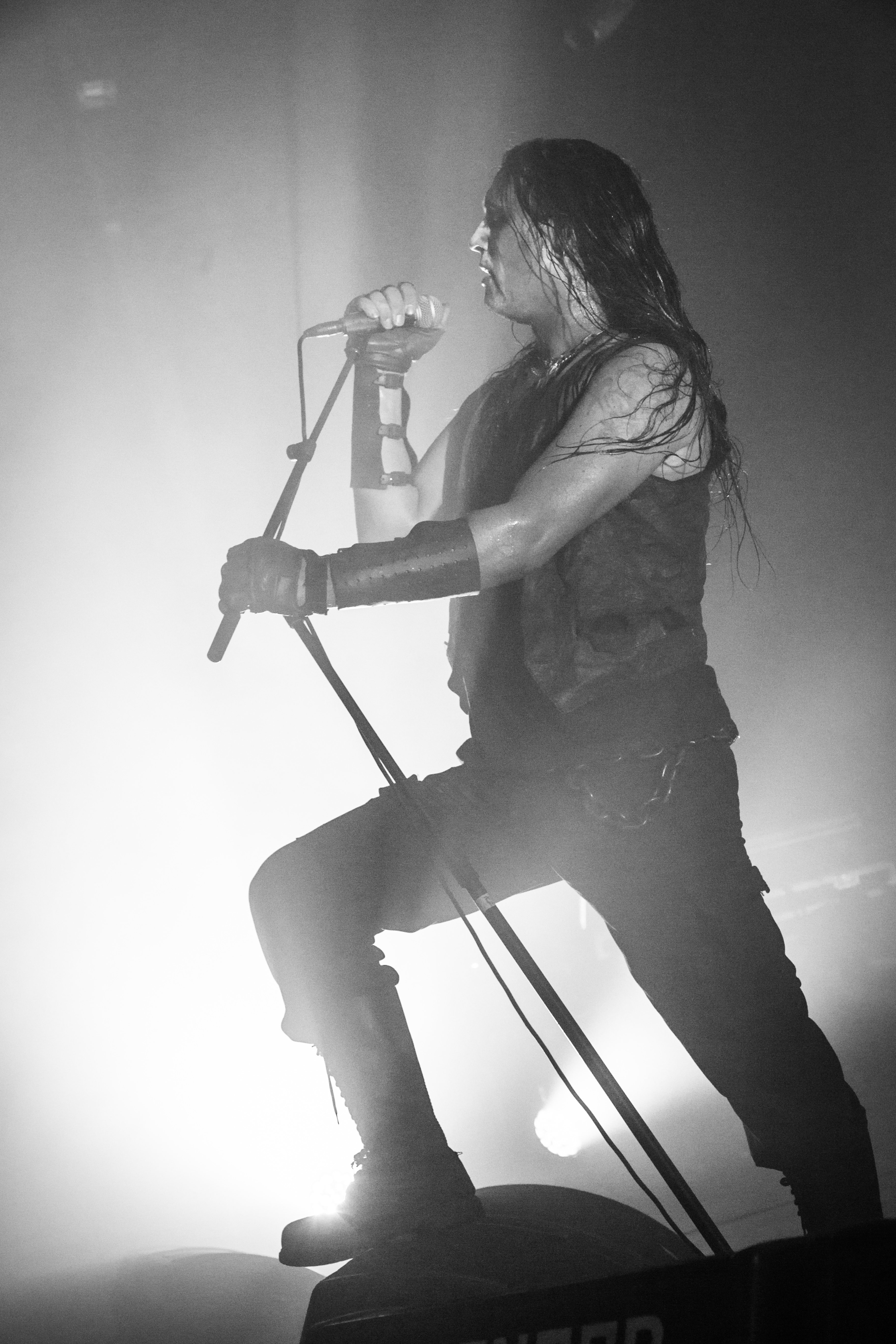 Marduk performing live at Metal Meeting 2015, Eindhoven, Netherlands